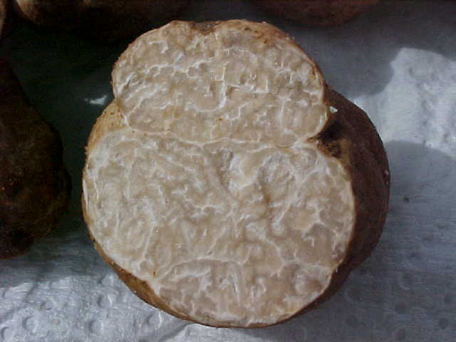 Terfezia arenaria Image location: Kemitra, Morocco This collection of Terfezia arenaria was sent to me by Tony LahRoche from Kemitra, Morocco. There are some 50 species of Terfezia truffles in Africa, many associated with Accacia trees or small plants in desert conditions. Look close and you will see small grains of sand still adherring to the peridium of these truffles, which tasted quite similar to Tuber gibbosum. Recognized by sight For more information about this, see the observation page at Mushroom Observer.